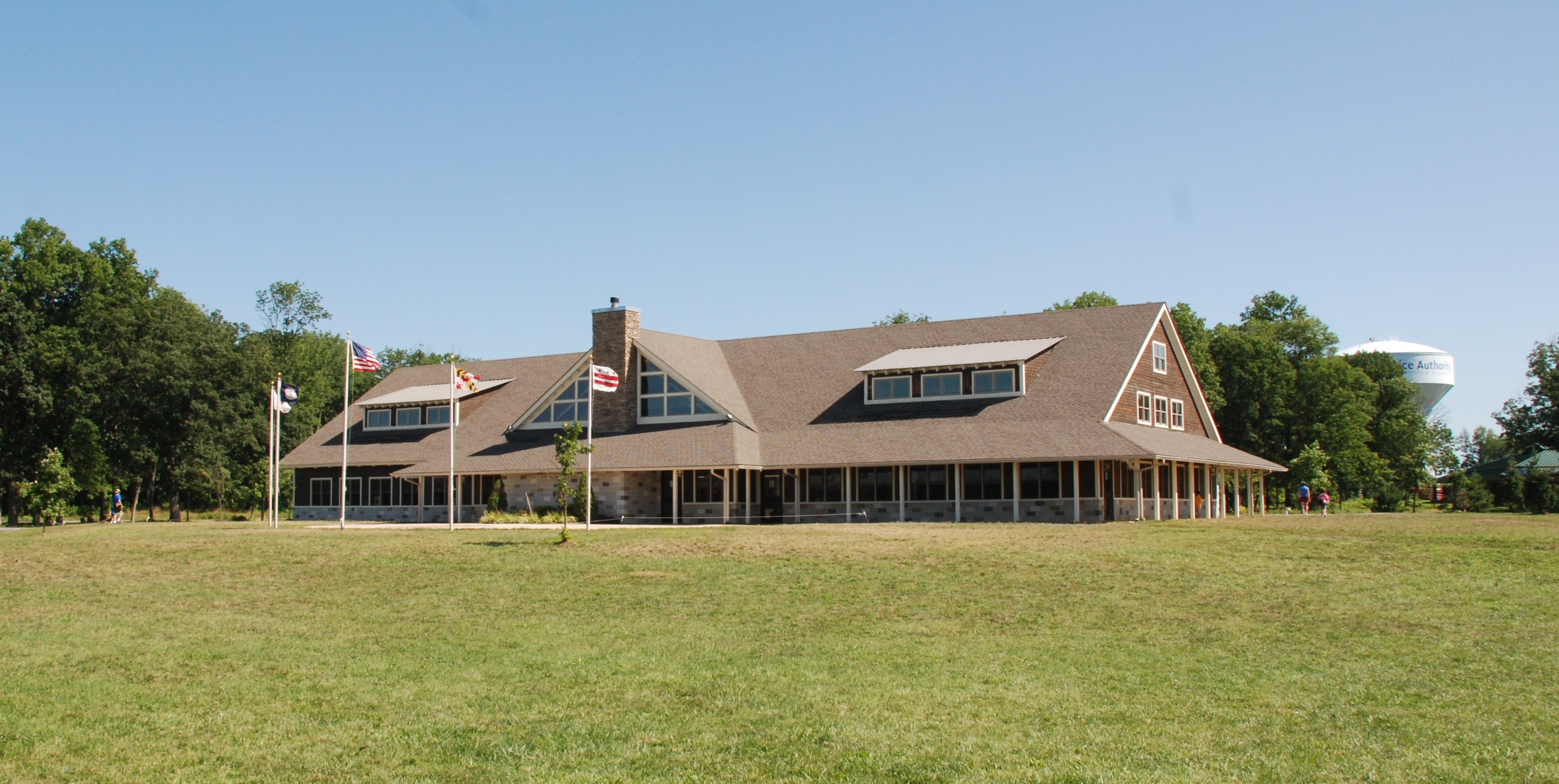 Boy Scouts of America's Camp Snyder in Haymarket, Virginia. Dining Pavilion.